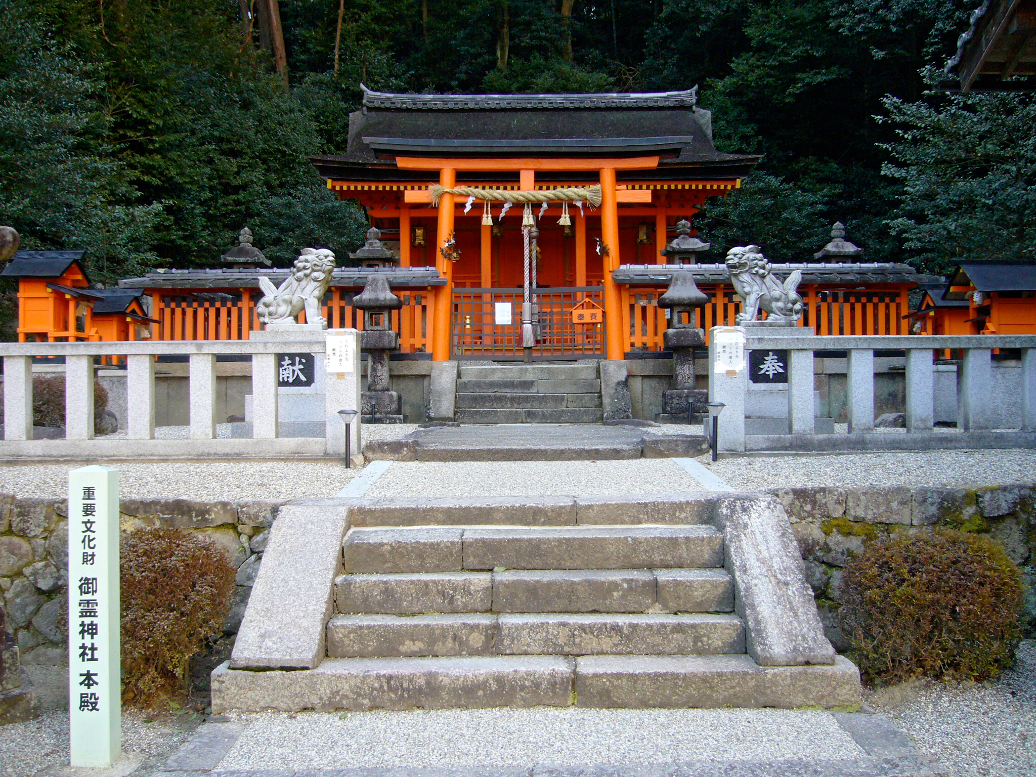 Goryō-jinja in Kizugawa, Kyoto prefecture, Japan